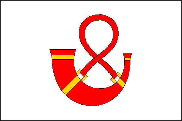 Municipal flag of Troubky village, Přerov District, Czech Republic.